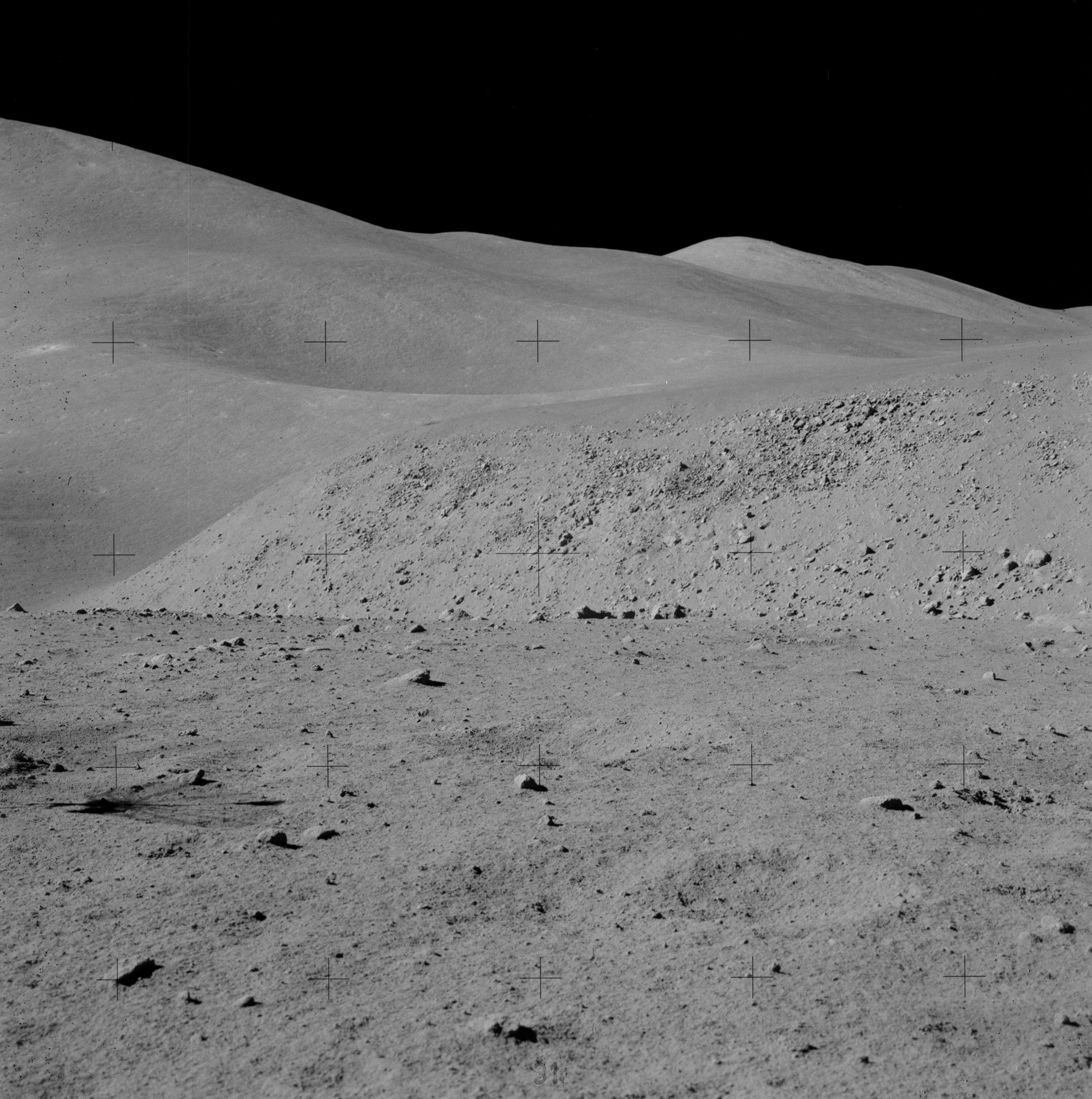 View of St. George and Mons Hadley Delta, with Hadley Rille in the foreground, Hadley-Apennine region on the moon. Taken during Apollo 15 mission to the moon, at Station 9.